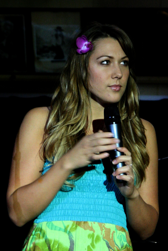 Chris Pierce opens for Colbie Caillat @ The Malibu Inn on October 26, 2007 on PCH